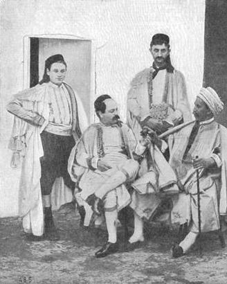 Groupe de juifs tunisiens vers 1900 / Group of Tunisian Jews (c. 1900)